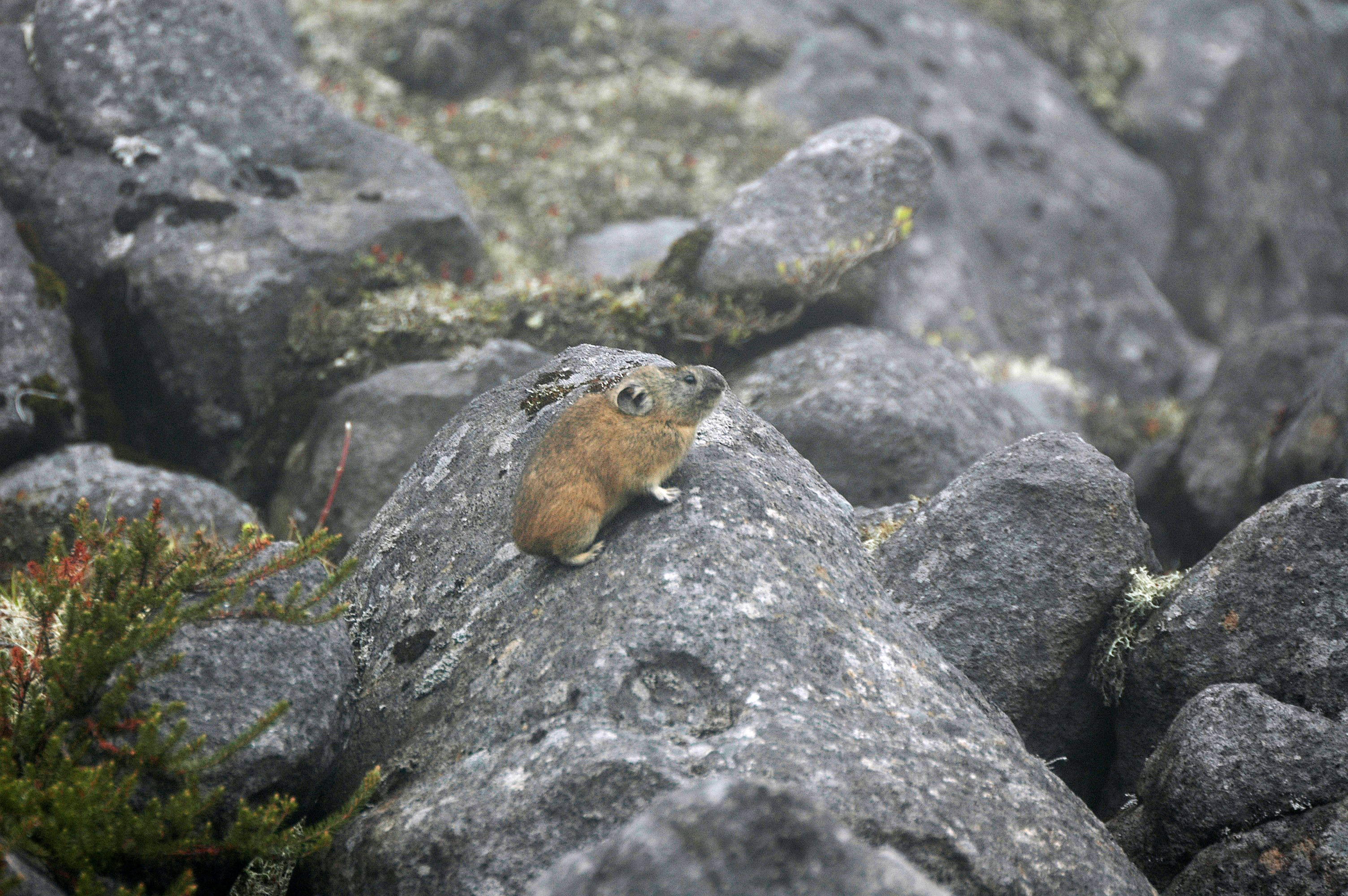 Ochotona Hyperborea yesoensis, Shikaoi, Hokkaido, Japan.